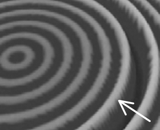 Nėra didesnės raiškos varianto.